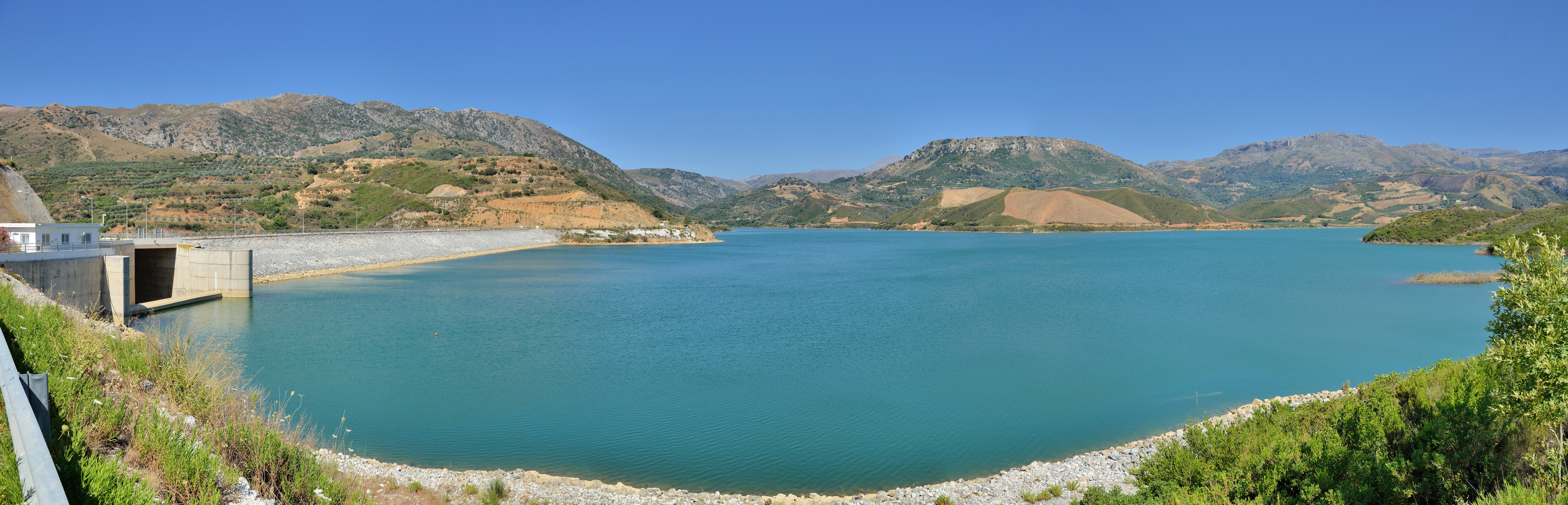 Crete: Potamon barrier lake